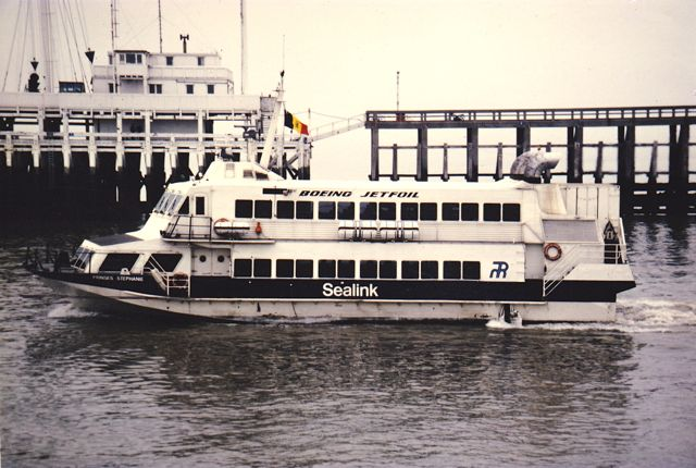 Boeing Jetfoil 929-115-020 "Princesse Stephanie" leaving Ostend harbour bound for Dover 1983